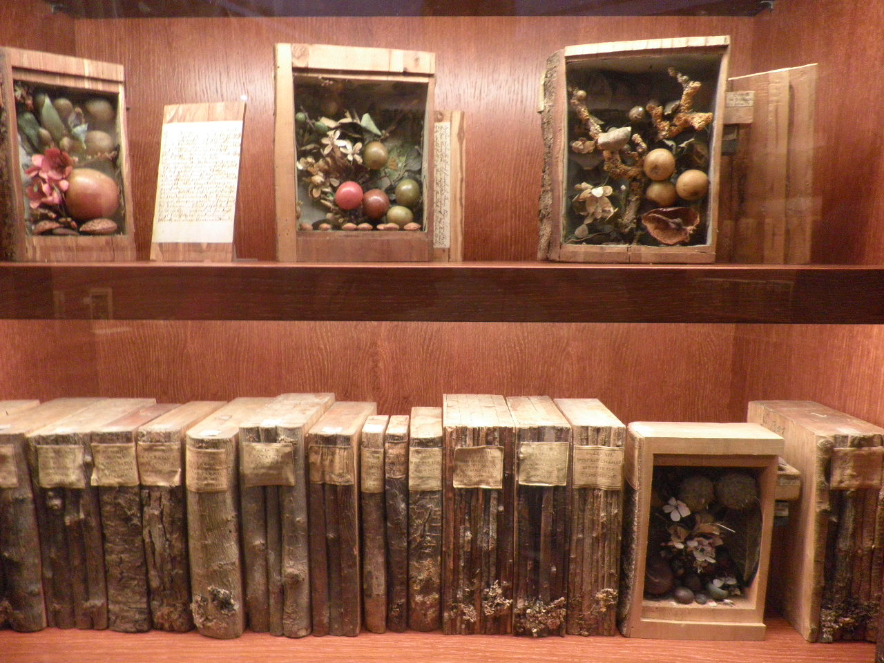 The Schildbach Xylotheque of the Ottoneum (Natural History Museum) in Kassel (Hesse, Germany). A collection created by Carl Schildbach from 1771 to 1799. Every "book" is made by the wood of the tree that is documented inside it with wax three-dimensional replicas of tree significant elements. Since 2012 the Xylotheque is showed inside the display designed by Mark Dion (1961 New Bedford (Massachkusetts) for dOCUMENTA (13).